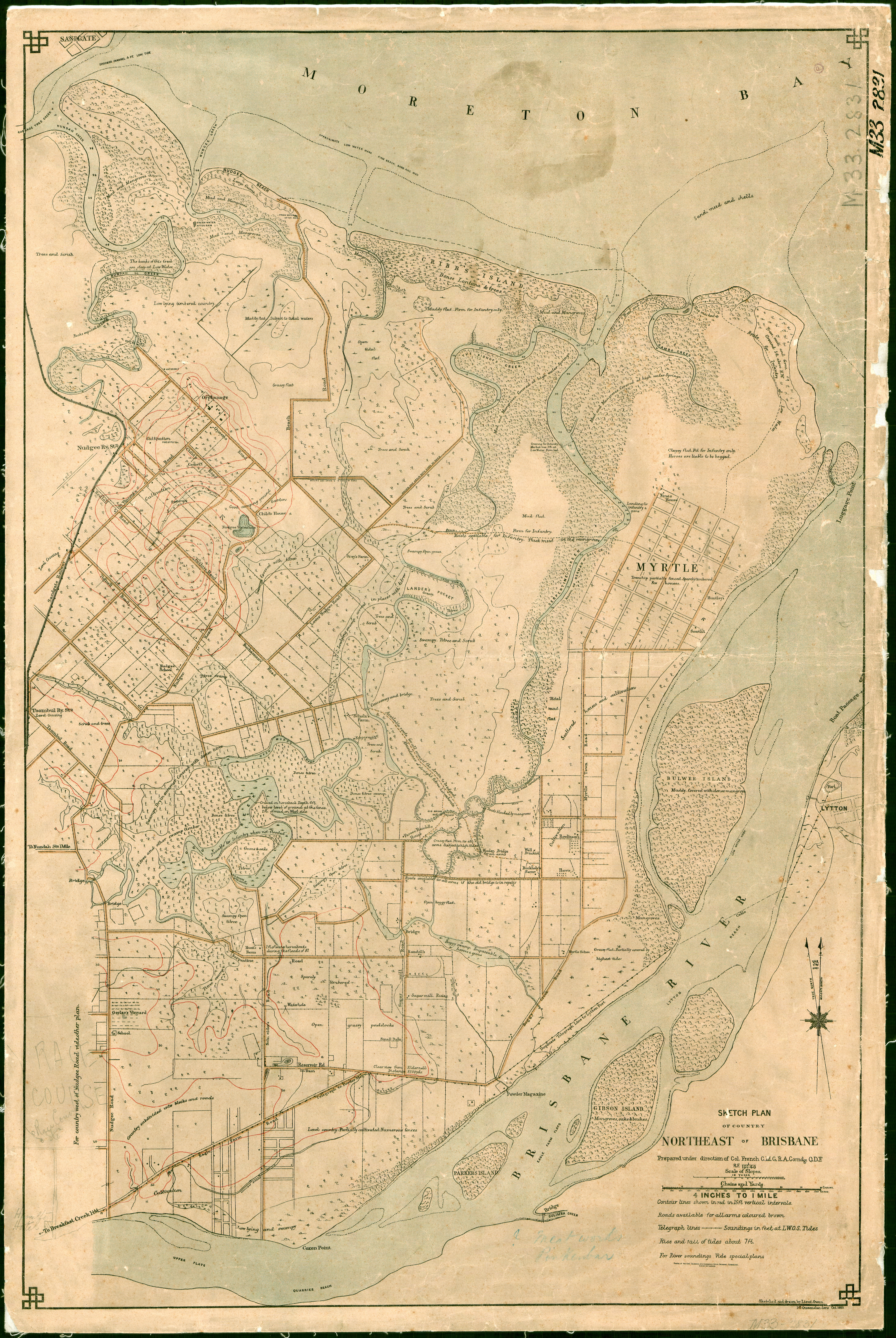 Topographic map (20 chains to an inch) northeast of Brisbane, 1889